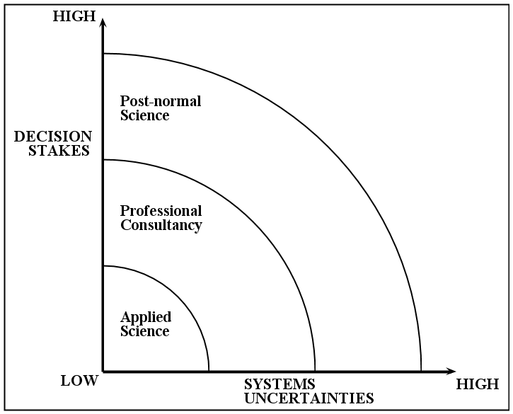 Increasing decision stakes and systems uncertainties entail new problem solving strategies. Image based on a diagram by Funtowicz, S. and Ravetz, J. (1993) "Science for the post-normal age" Futures 25:735–55 .